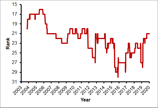 IRB World Rankings from